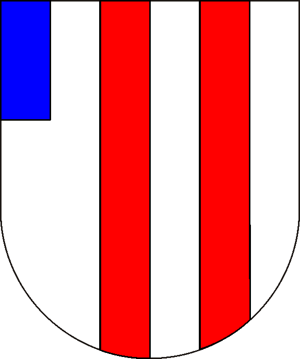 coats of arms of the lordship of Runkel